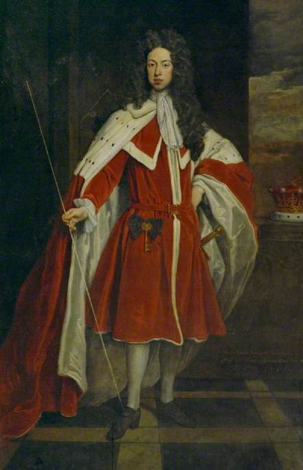 Portrait of Henry Grey, 1st Duke of Kent